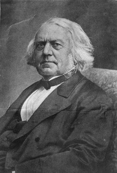 Bishop Ditlev Gothard Monrad (1811-1887), Danish politician and Prime Minister